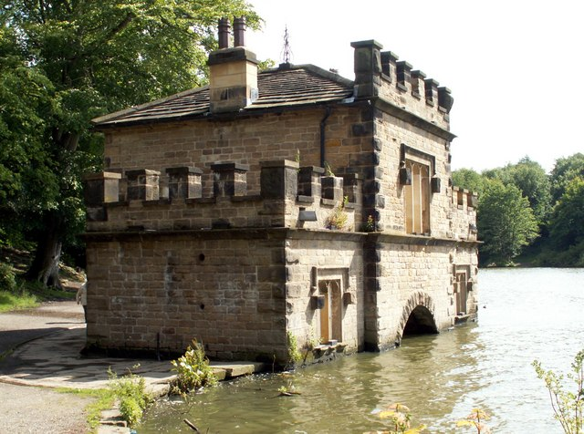 The boathouse at Newmillerdam, Wakefield, Great Britain